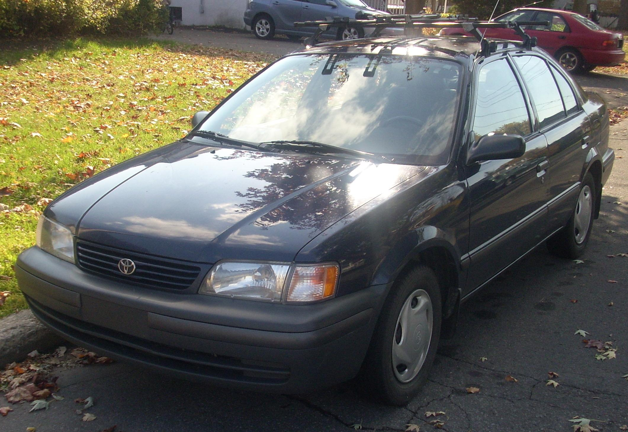 1998-1999 Toyota Tercel photographed in Vaudreuil-Dorion, Quebec, Canada.